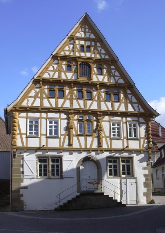 Half-timber house in Neckarwestheim, Germany